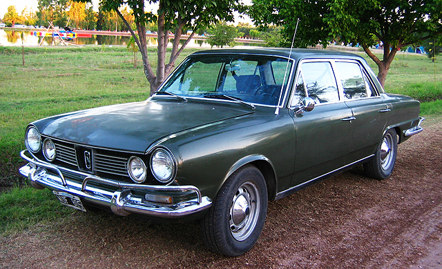 The IKA Torino, later Renault Torino, is a mid-sized automobile made by Industrias Kaiser Argentina (IKA)